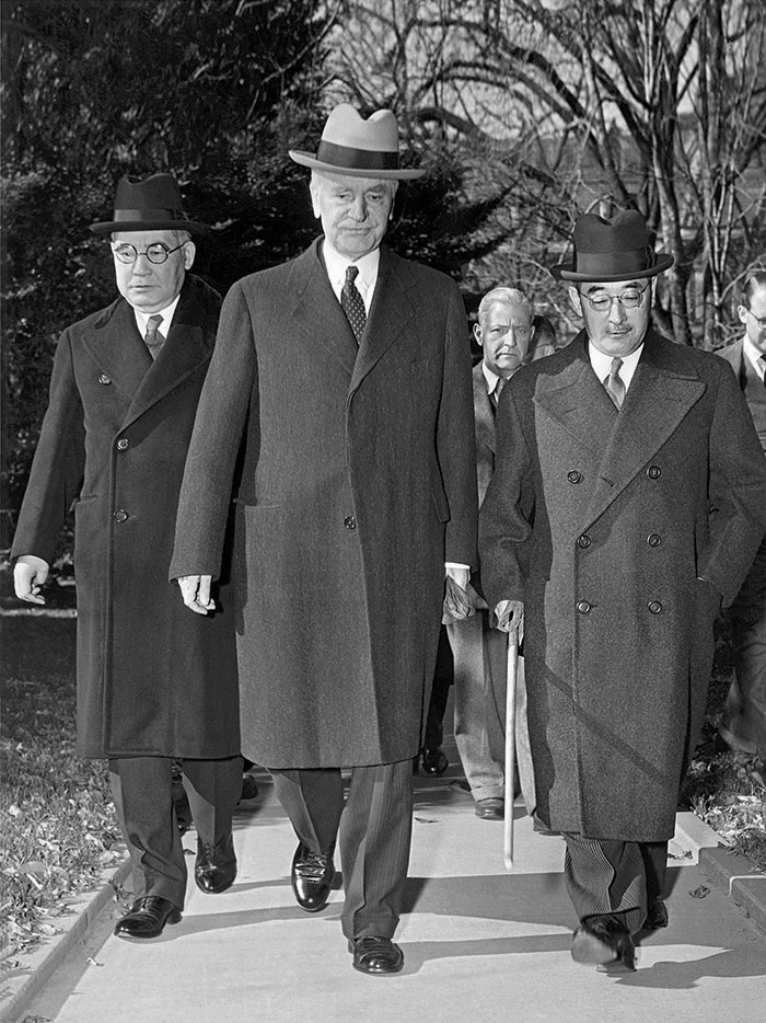 Secretary of State Cordell Hull (1887–1955) brought Japanese Ambassador Kichisaburō Nomura (1877–1964, left) and Special Envoy Saburō Kurusu (1886–1954, right) to the White House for a meeting with President Franklin Roosevelt (1882-1945) on 17 November 1941.